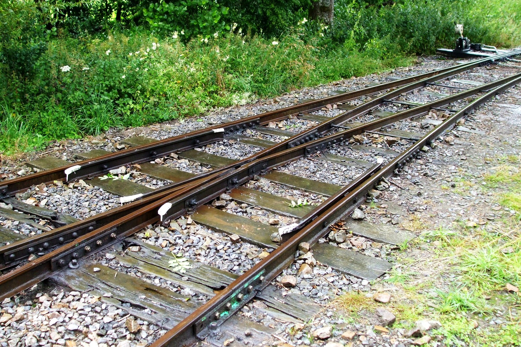 Keywords : SNCV, TTA, vicinal railways, rail, metre gauge, tram, train, track, pointwork, Forge à l'Aplez (Manhay), Belgium